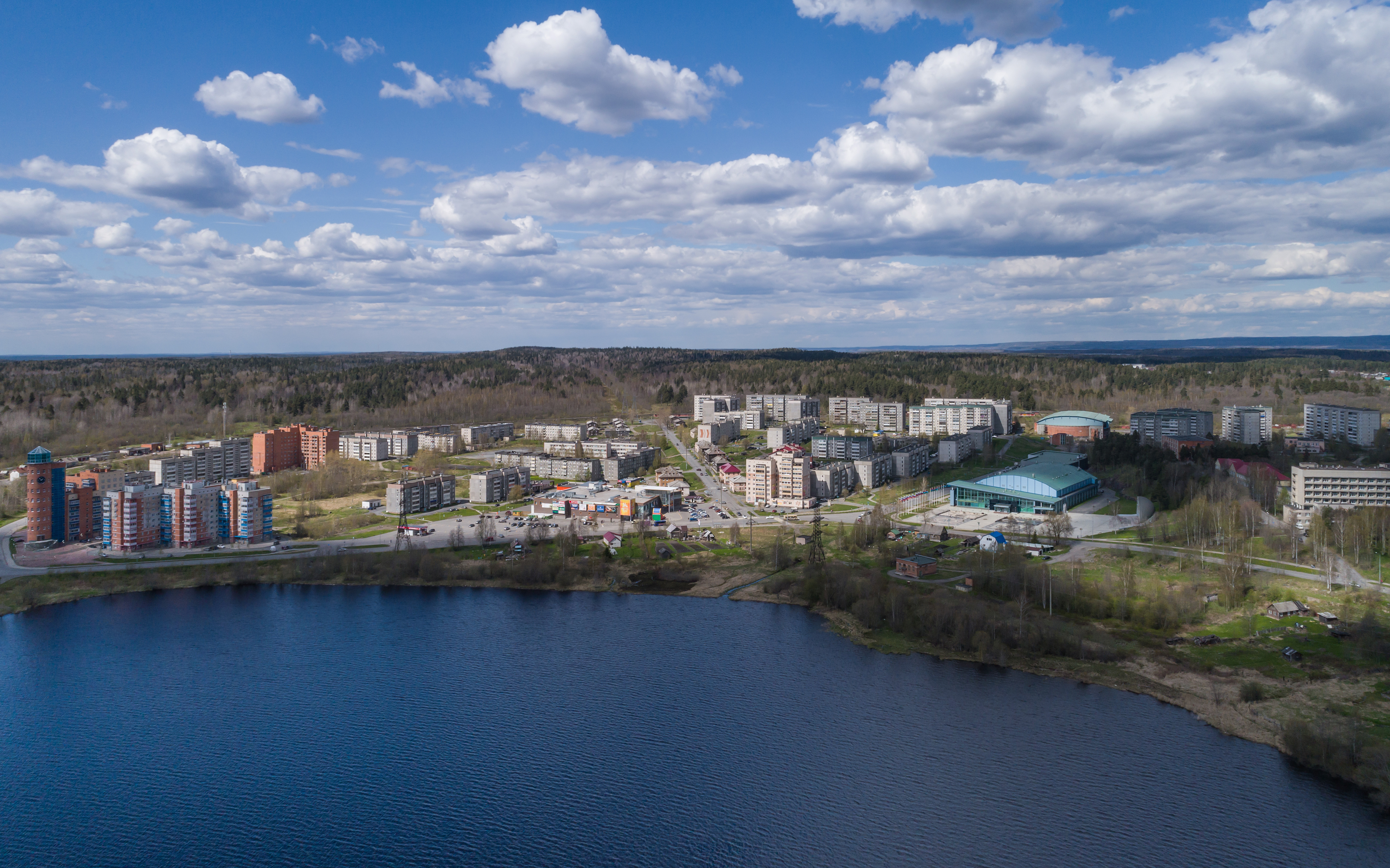 Aerial photo of northwestern parts of Kondopoga, Republic of Karelia (Russia).